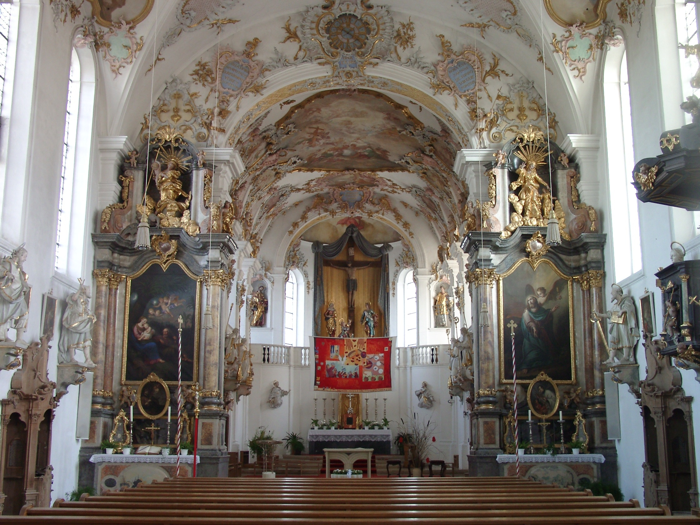 Interior view of the pilgrimage church St. Jakobus und Laurentius in Biberbach (Swabia)